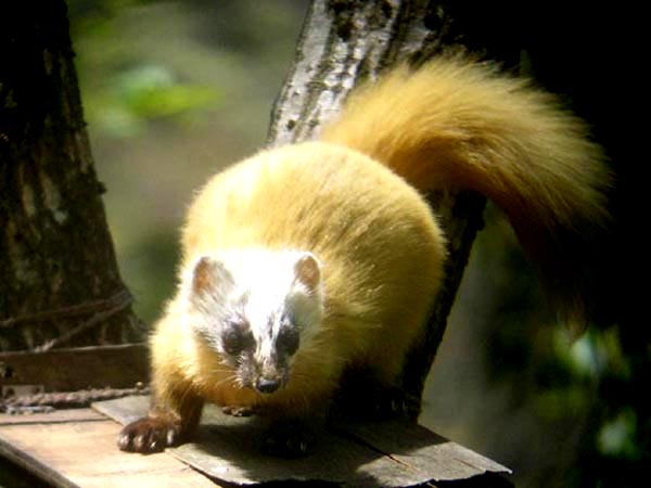 A Japanese Marten at Tanzawa in Kanagawa Prefecture, Japan. Photo from 2007. 神奈川県の丹沢でテンです。２００７年の写真です。